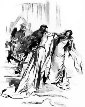 F. H. Townsend's illustration from The Misfortunes of Elphin and Rhododaphne (1897)